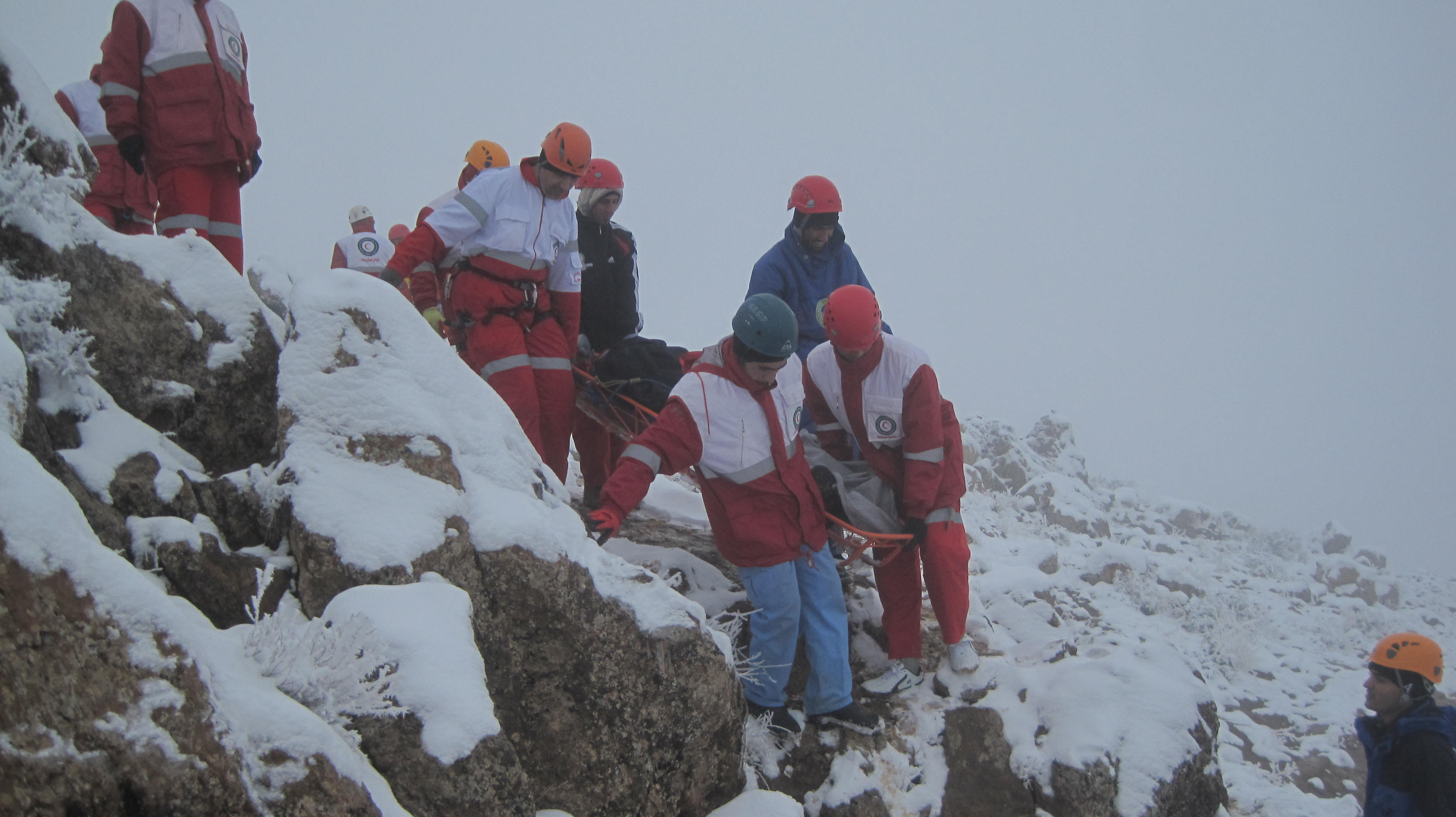 Mountain rescue